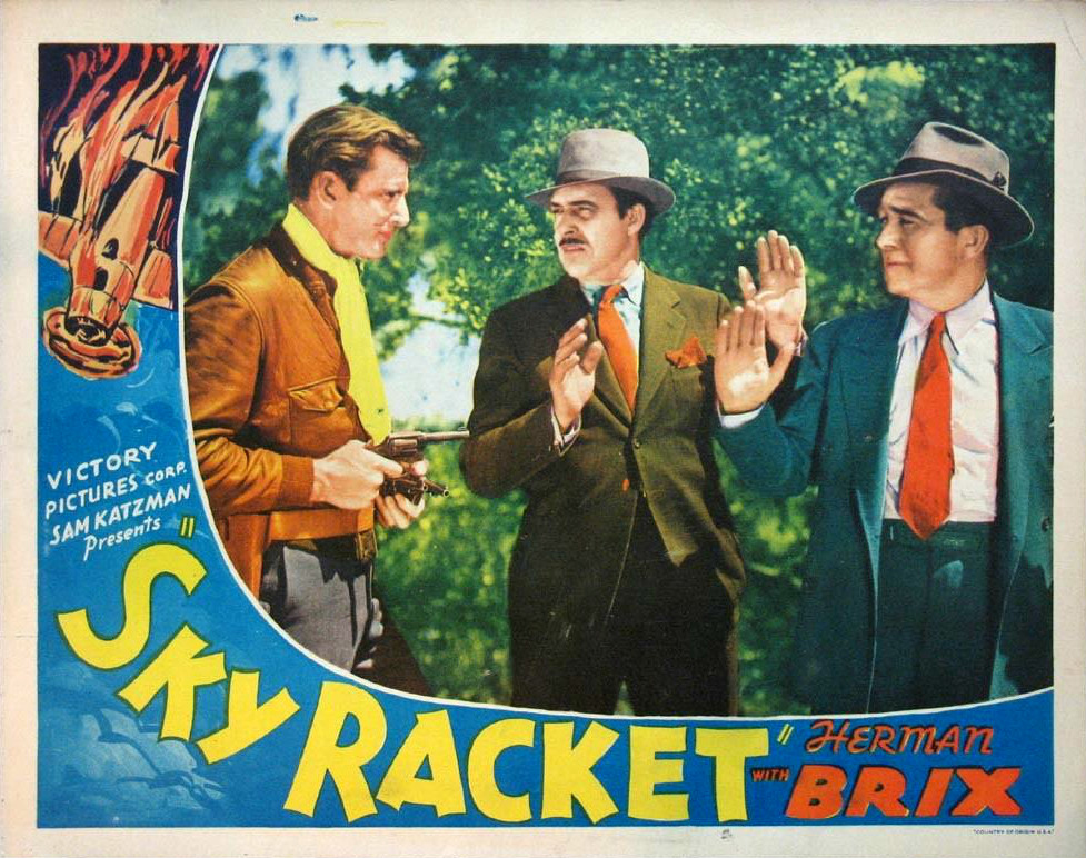 Lobby card for the American film Sky Racket (1937). The film was made before actor Bruce Bennett had changed his name from Herman Brix.